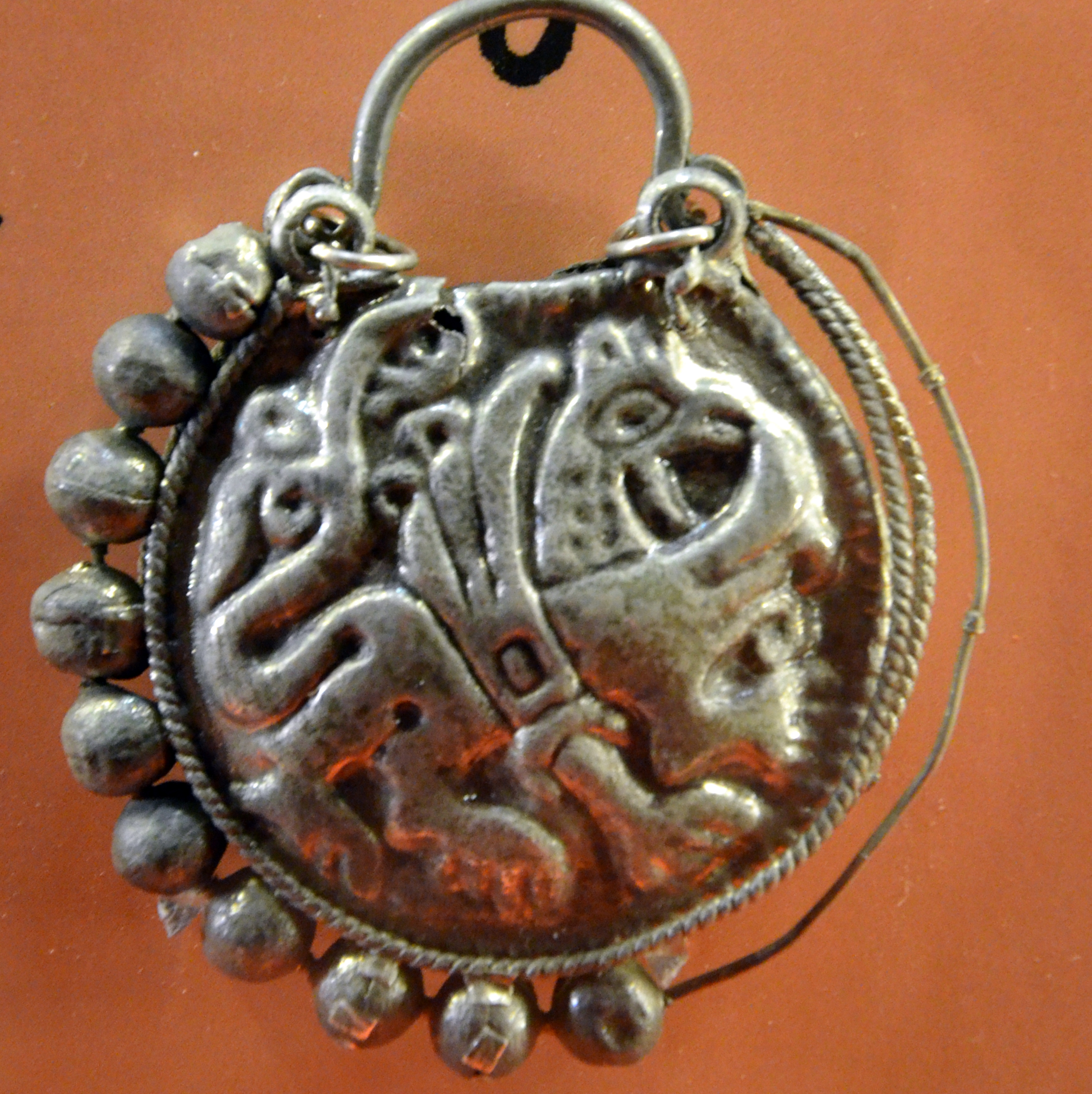 Cemetery with graves in stone setting, Trepcza